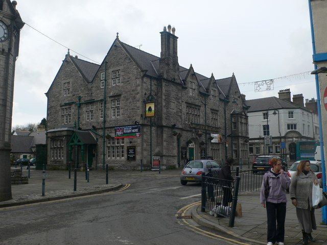 The Bull Hotel, Llangefni The atmospheric Bull Hotel, long a market tavern and rebuilt in its present form in 1872 is a wonderful centrepiece for the town. It stands across the road from the Town Hall.